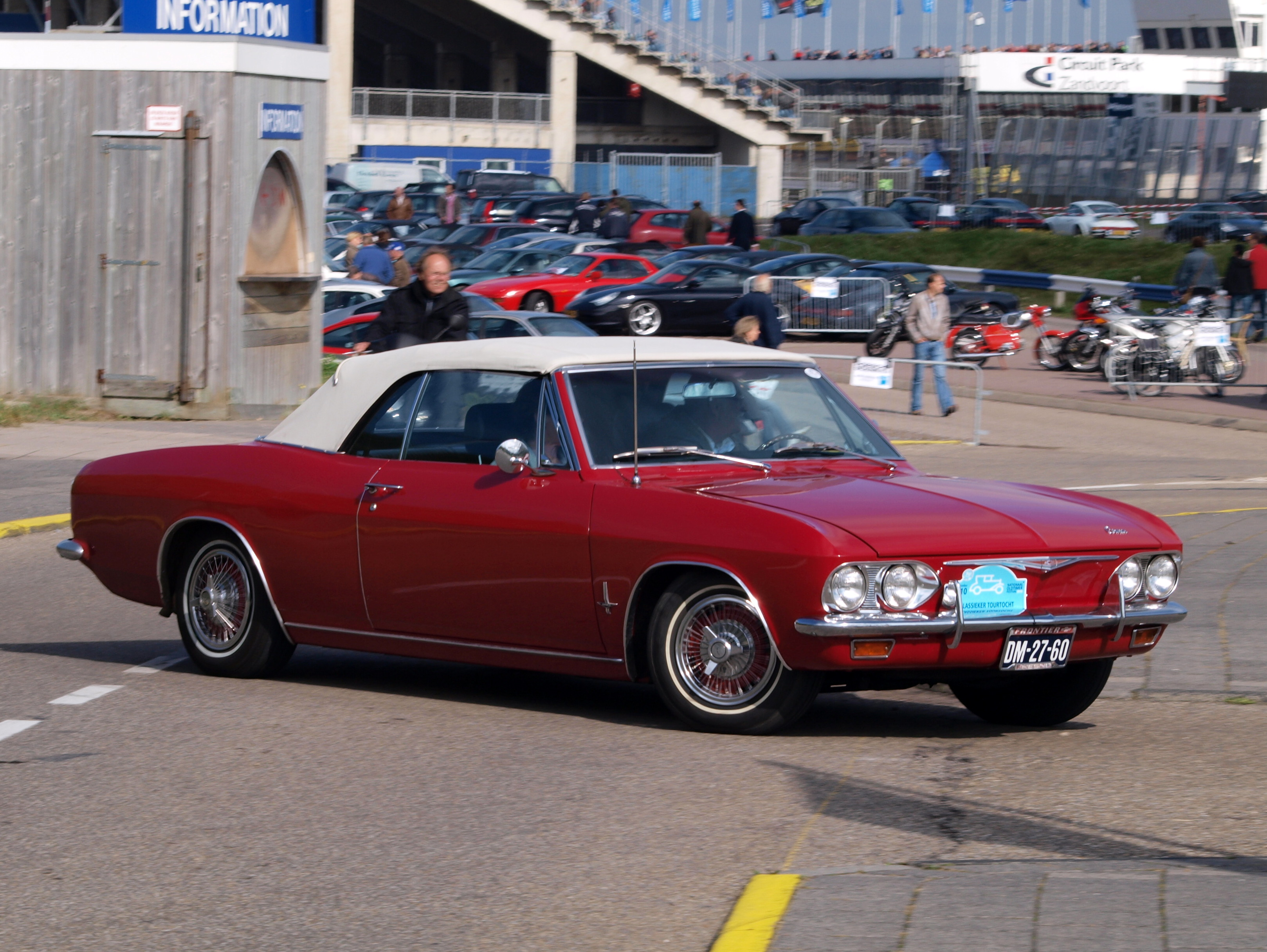 Photographed at the Nationaal Oldtimer Festival Zandvoort 2010, The Netherlands.